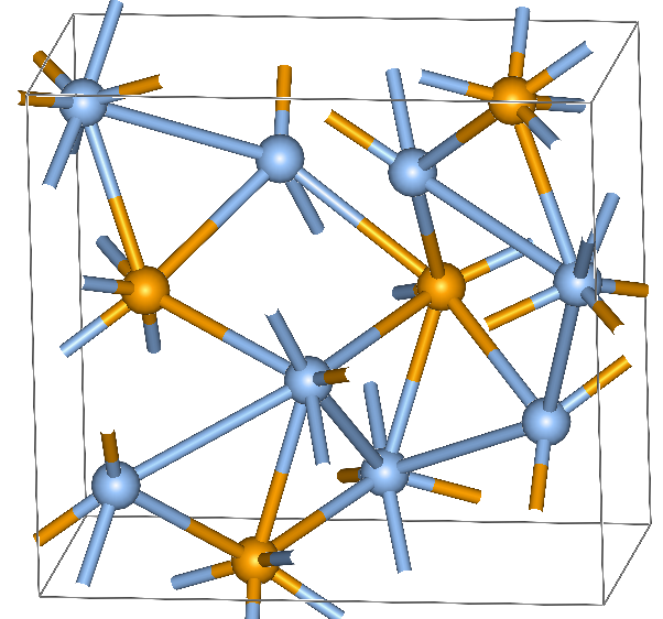 beta-Ag2Se structure. Silver atoms are blue